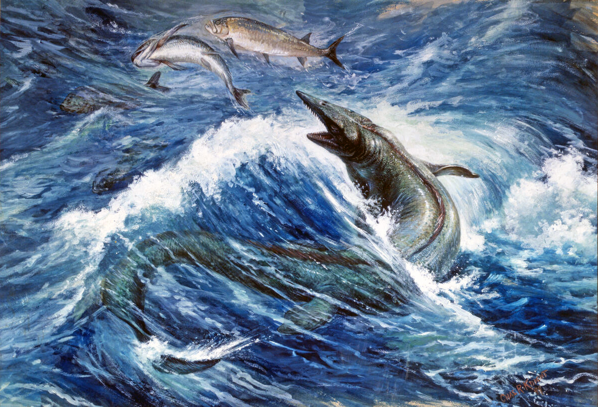 Painting for the American Museum.